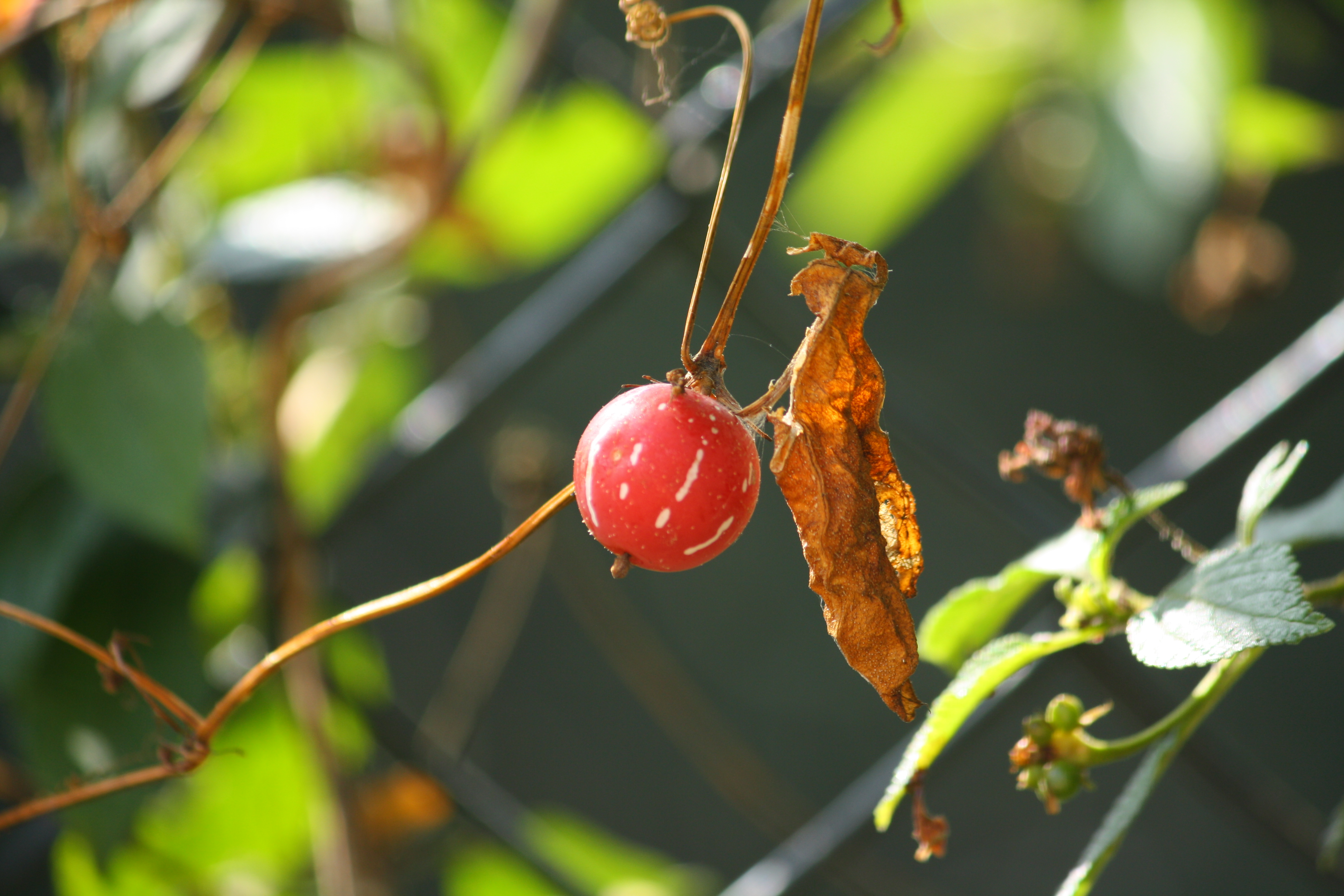 Diplocyclos Palmatus